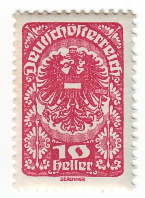 Austria-1919 Nr. 259